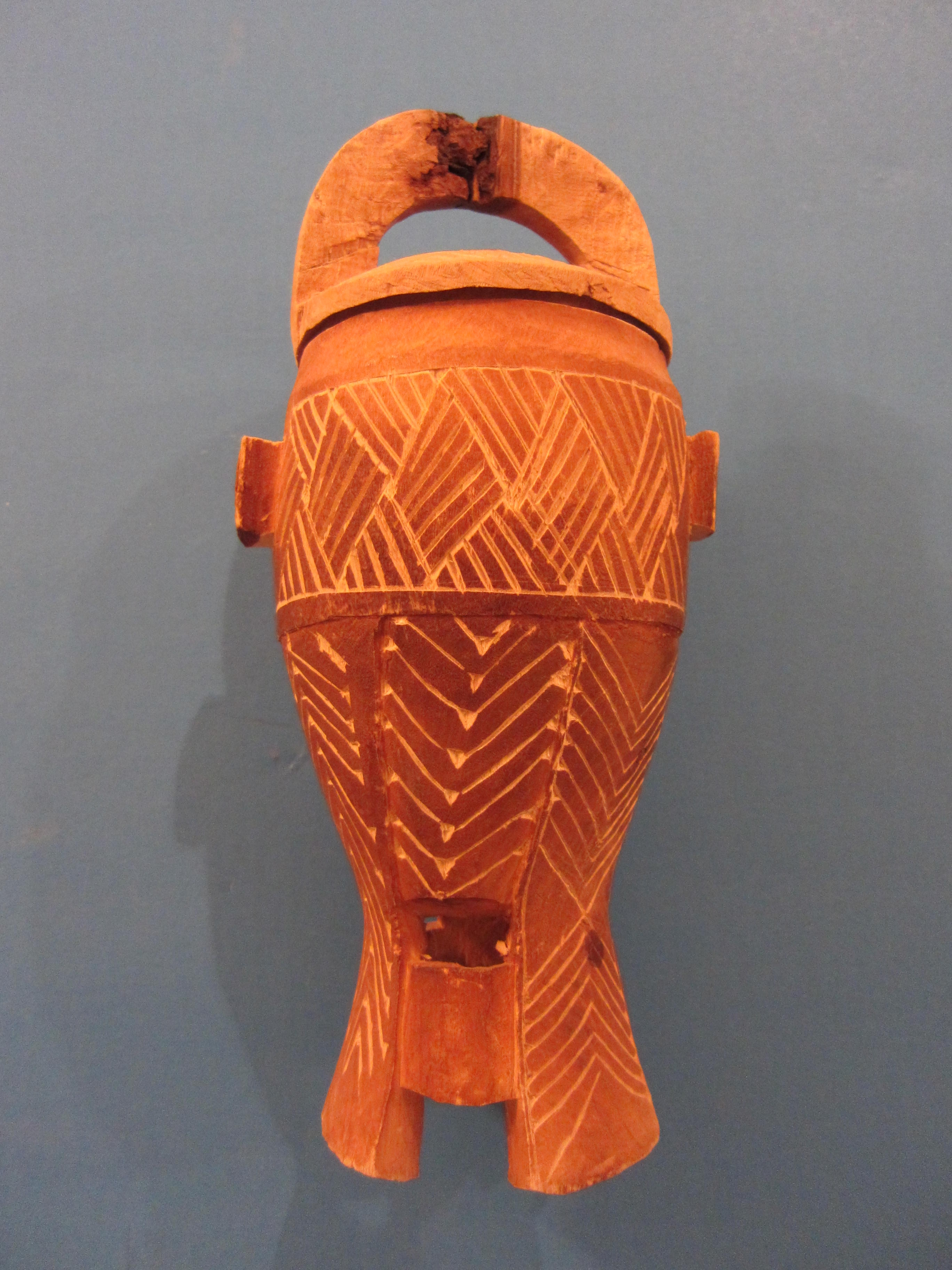 Wood jar from village of Oue`a, Tadjoura, Djibouti. Obtained in 2003.